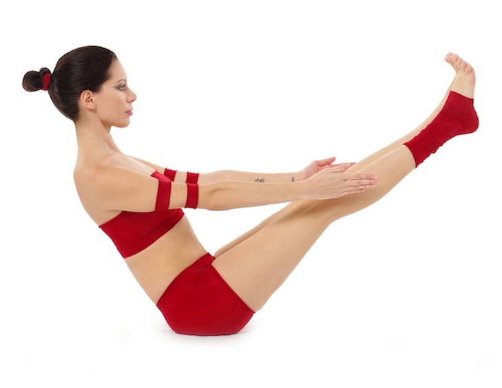 Paripurna Navasana by Nina Mel, Yoga Teacher